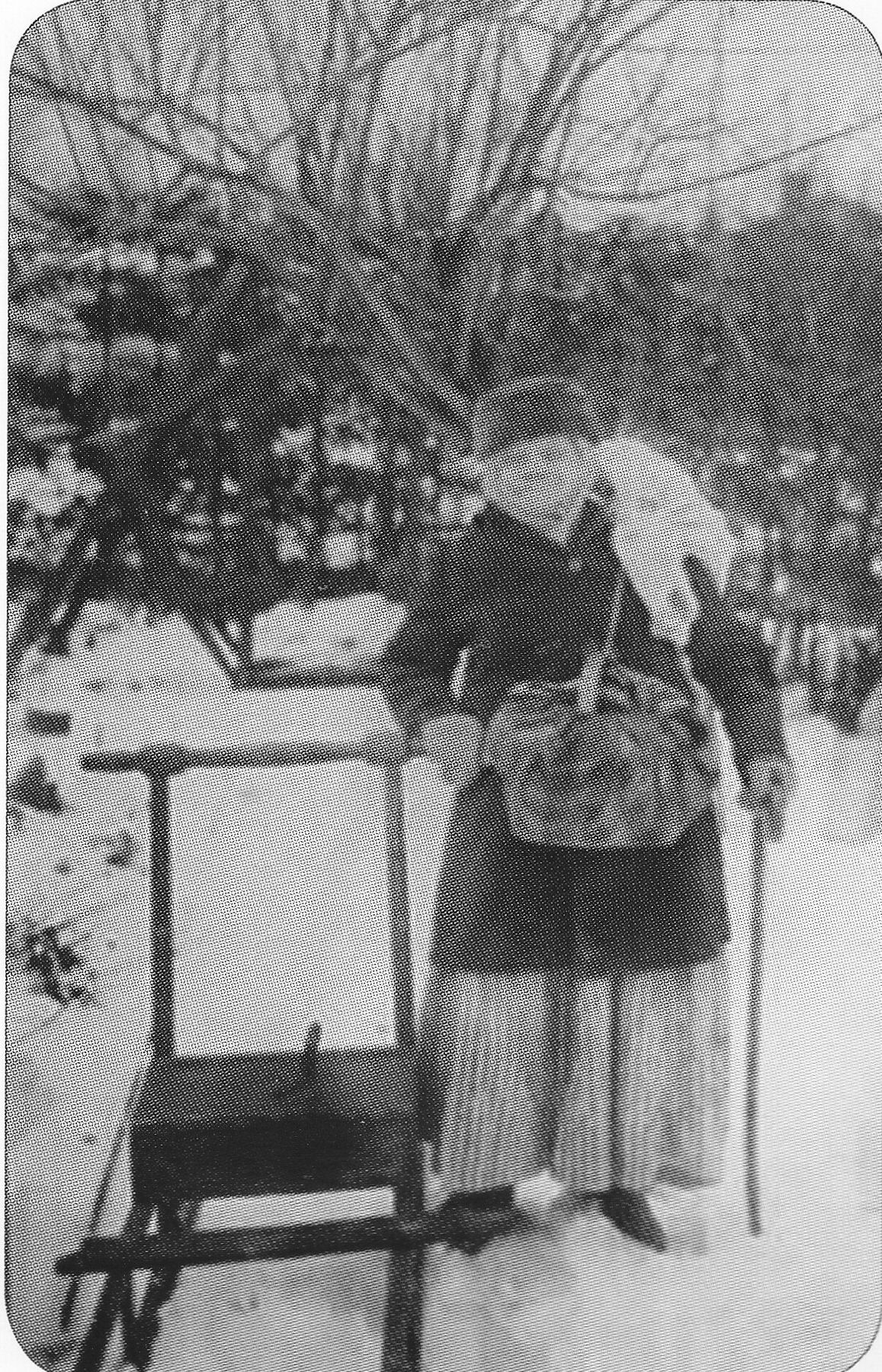 Sauna-liina about 1900 - 1920